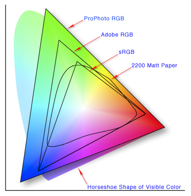 This is a map that compares how much of the color spectrum (that large oval in the far back) different color spaces cover. ProPhoto RGB covers the most of the spectrum, Adobe RGB is the second largest, and sRGB is the smallest. Also shown is the color limits of the Epson 2200 printer. From the original document: A Color Managed Raw Workflow - From Camera to Final Print (.PDF) "This gamut map of the various color spaces shows that there are colors that can be printed on an Epson 2200 that fall outside of both the sRGB color space and the Adobe RGB color space. Cameras' capturing and printers' printing are not limited to the sRGB color space." Image created by Jeff Schewe